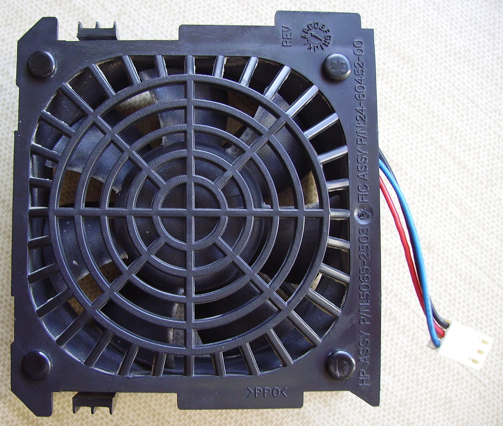 Set: support made of PPO attached to an 80 mm computer fan.